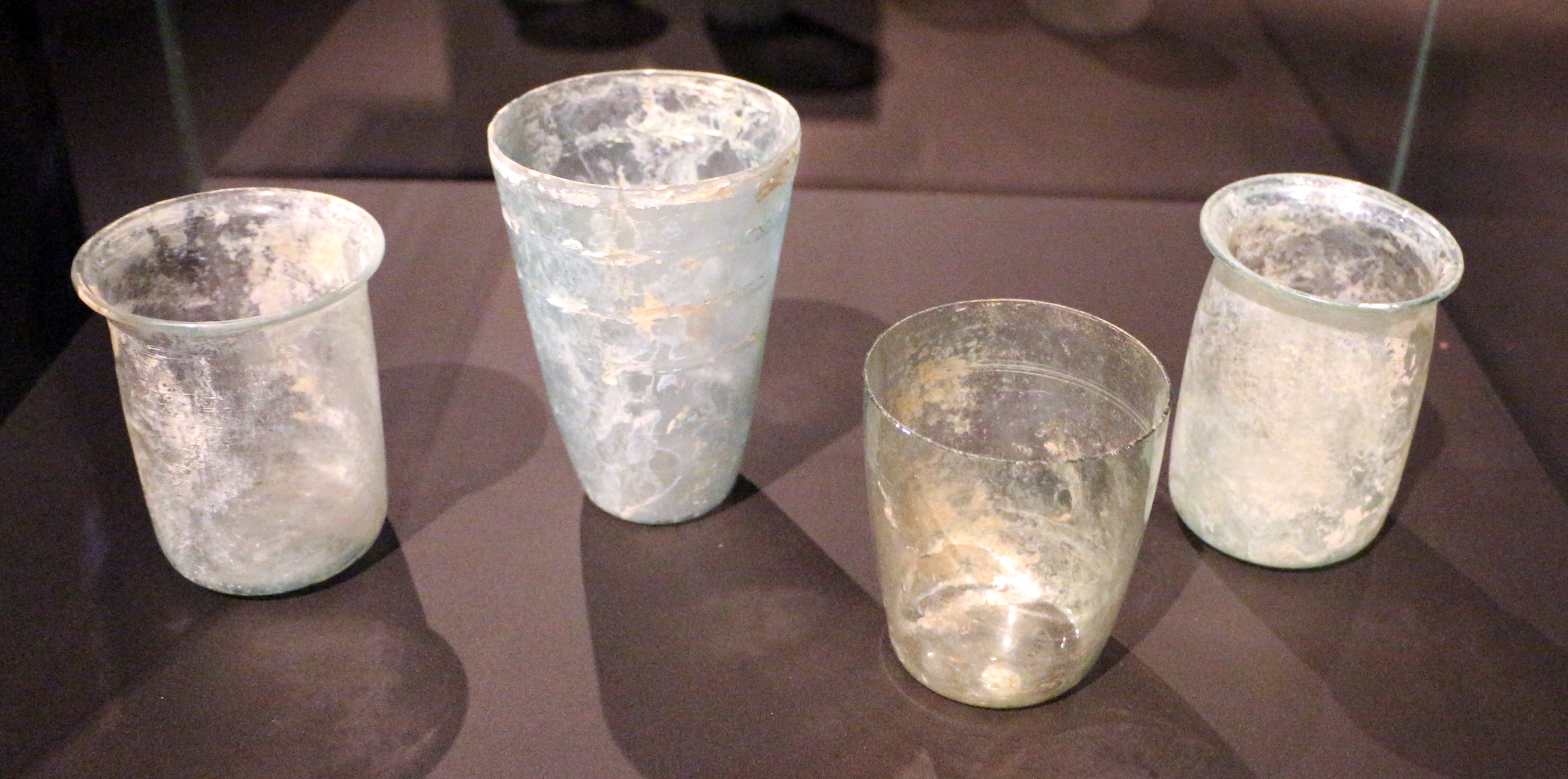 Neo Preistoria exhibition (Milan 2016)